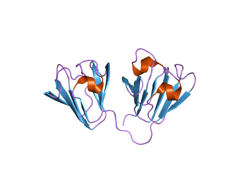 Cartoon representation of the molecular structure of protein registered with 2jdg code.